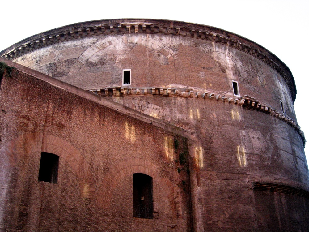 Pantheon retro, Roma, Italy.